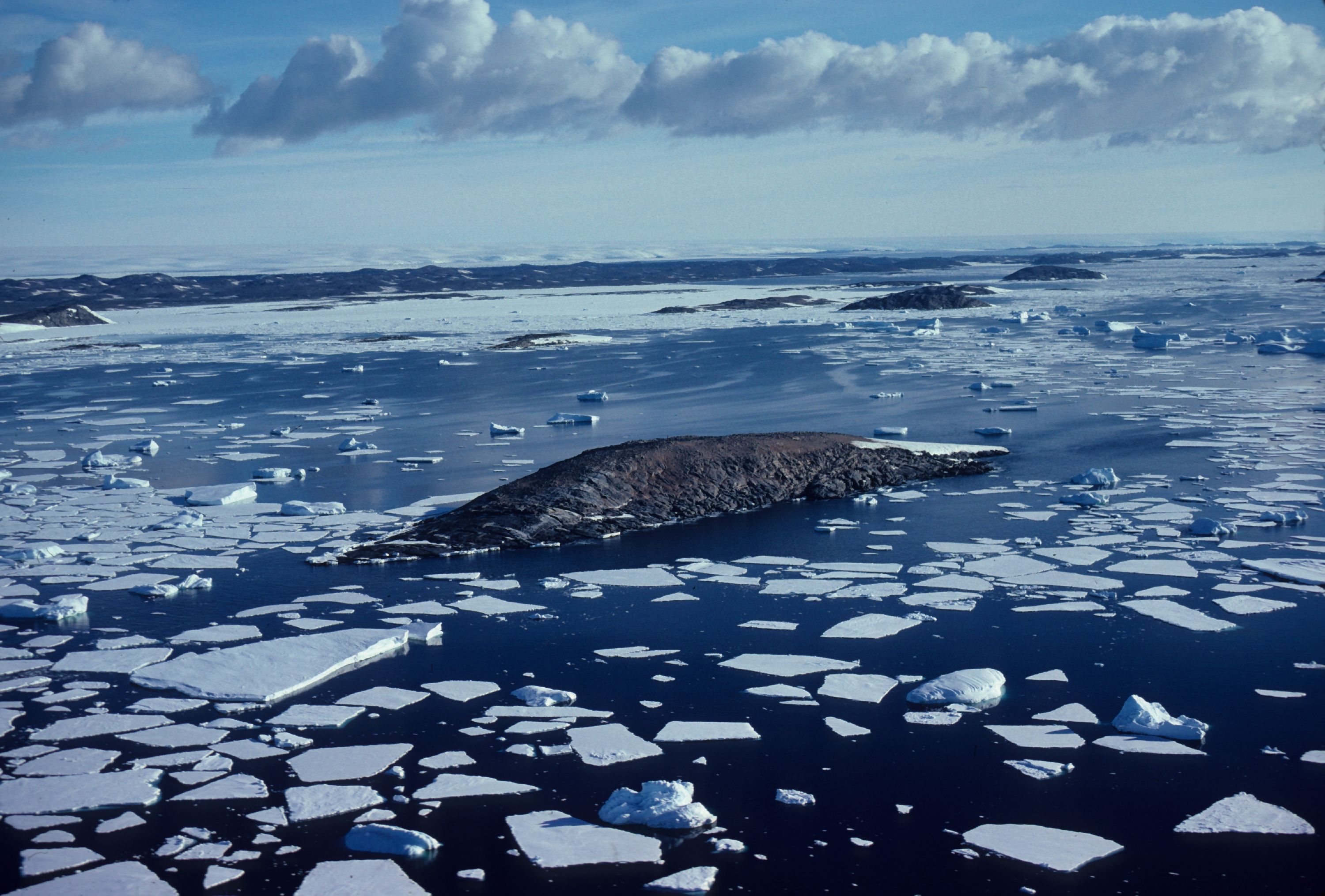 Turner Island. Vestfold Hills, Antarctica. Photographer: Dr. Robert Ricker, NOAA/NOS/ORR.